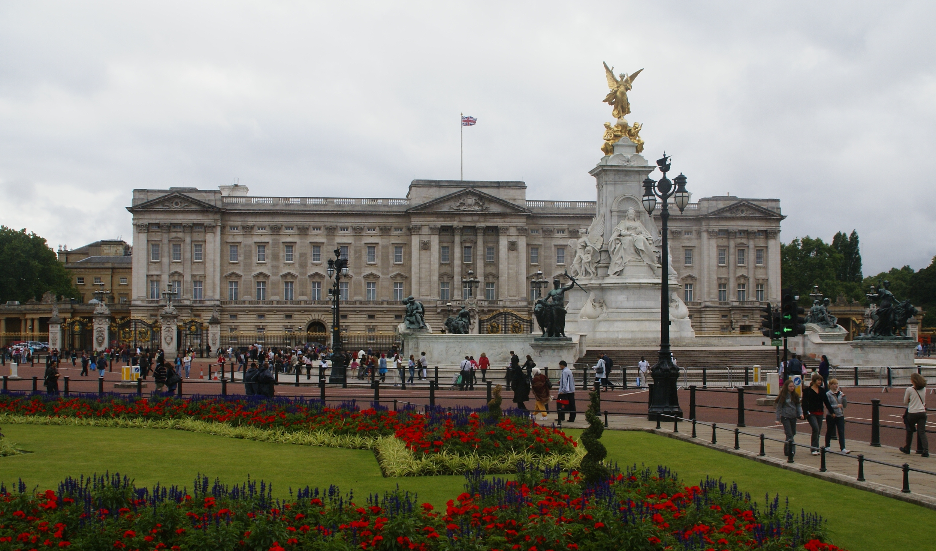 Buckingham Palace, London, England from the end of the Mall.